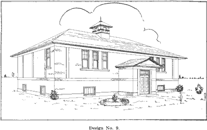 Michigan Rural School Plan No 9, 1915-1916